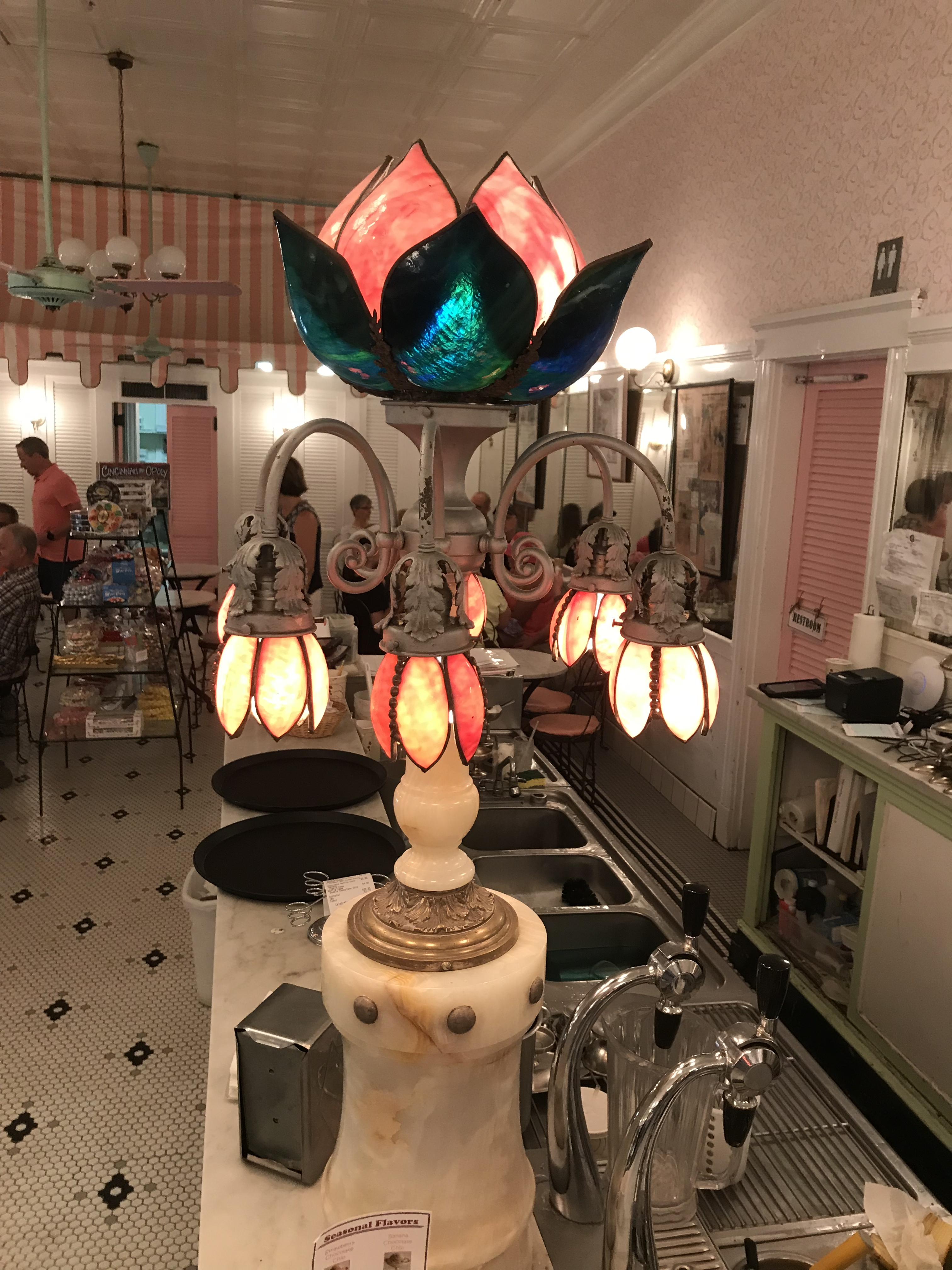 Tiffany tulip lamp at Aglamesis Bro's ice cream parlor in Oakley, Cincinnati